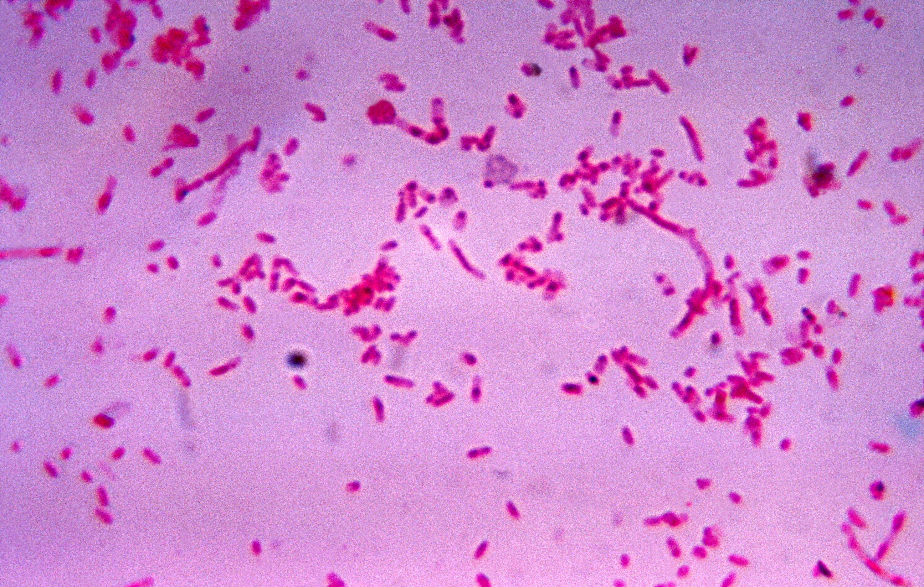 Fusobacterium novum after being cultured in a thioglycollate medium. Obtained from the CDC Public Health Image Library. Image credit: CDC/Dr. V. R. Dowell, Jr. (PHIL #2965), 1972.